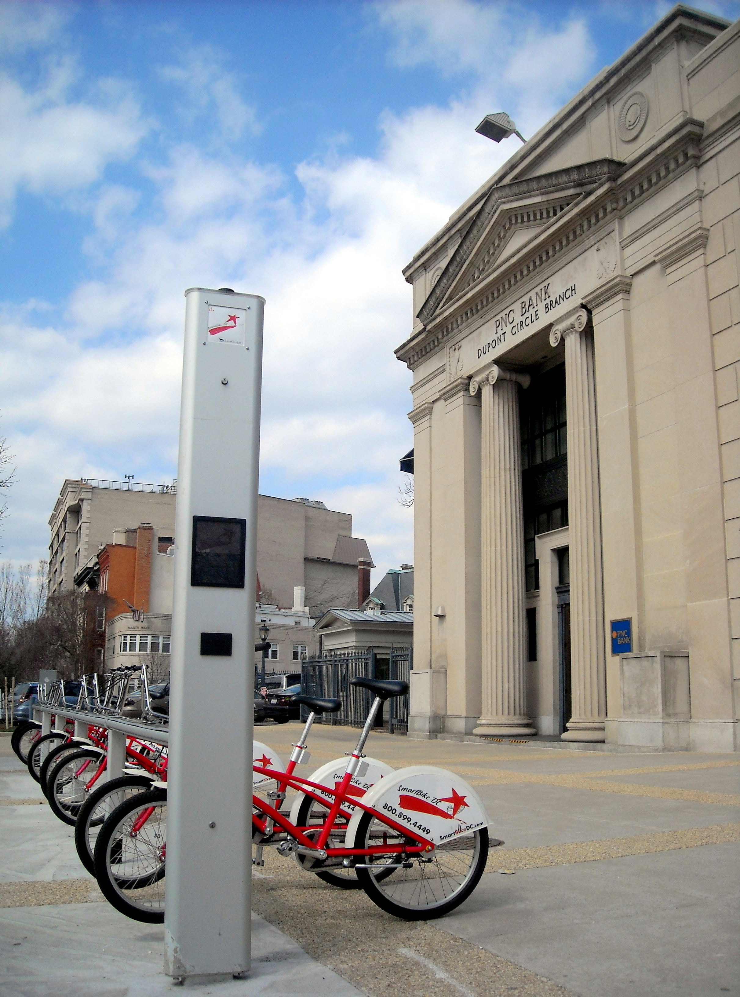 A SmartBike DC station located in the Dupont Circle neighborhood of Washington, D.C. SmartBike DC began operating in 2008 and is the first fully automated bicycle sharing system in the United States. The former Riggs National Bank, Dupont Circle branch (now owned by PNC Bank), is the building seen on the right. It was constructed in 1923 on the site previously occupied by Stewart's Castle.